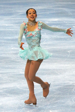 Mao Asada during her short program at the 2009 Trophée Eric Bompard.